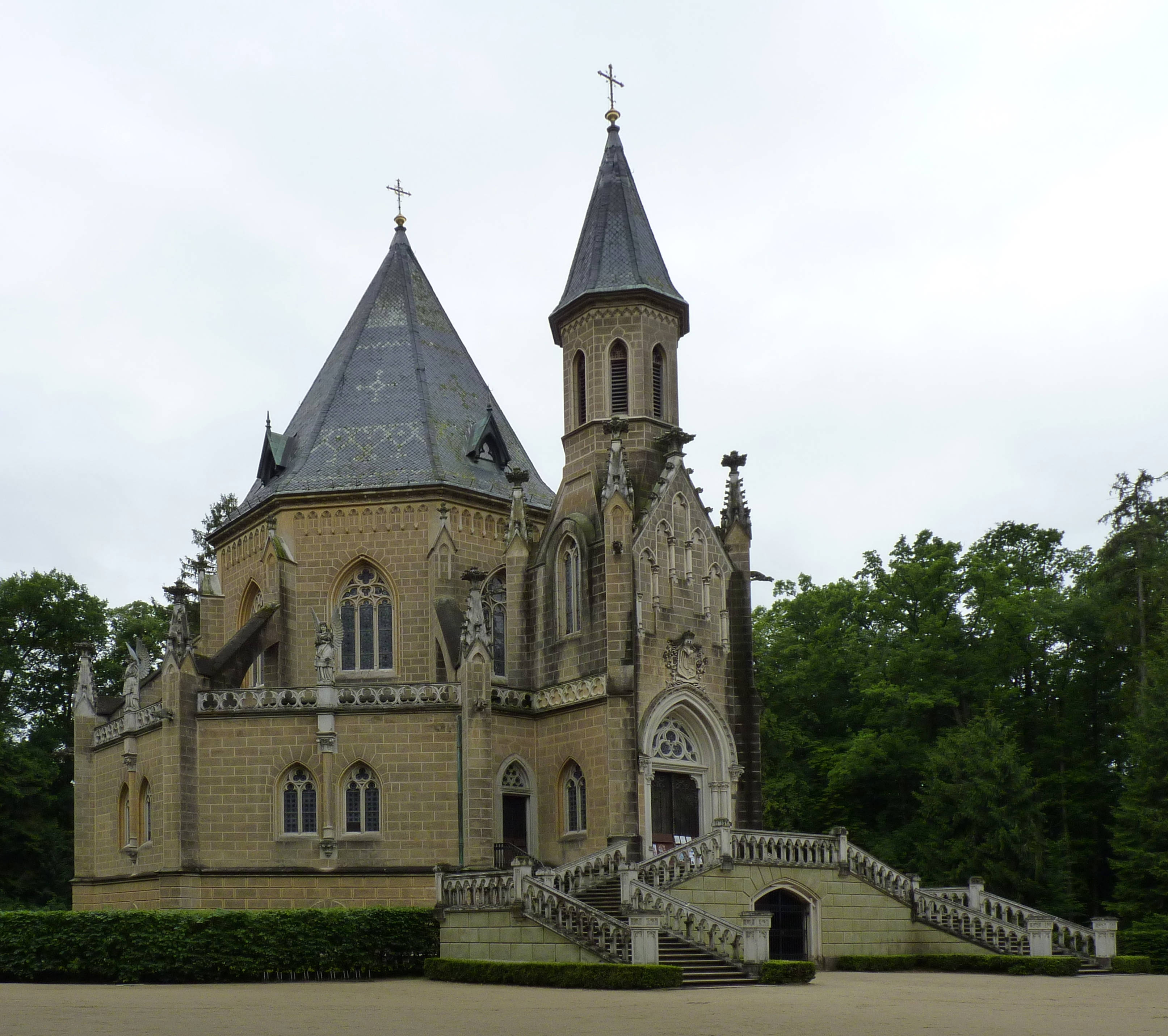 Schwarzenbergs crypt. Jindřichův Hradec District, South Bohemian Region, Czech Republic